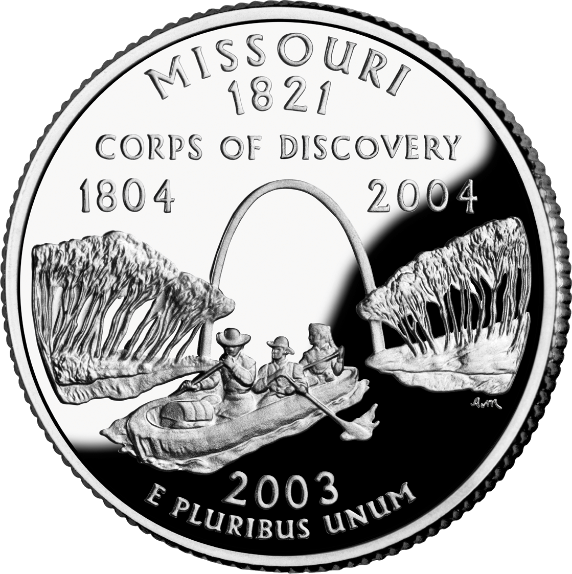 Removed background, cropped, and converted to PNG with Macromedia Fireworks. This image depicts a unit of currency issued by the United States of America. If Fraudulent use of this image is punishable under applicable counterfeiting laws. As listed by the United States Secret Service at money illustrations, the Counterfeit Detection Act of 1992, Public Law 102-550, in Section 411 of Title 31 of the Code of Federal Regulations (31 CFR 411), permits color illustrations of U.S. currency provided:1. The illustration is of a size less than three-fourths or more than one and one-half, in linear dimension, of each part of the item illustrated;2. The illustration is one-sided; and3. All negatives, plates, positives, digitized storage medium, graphic files, magnetic medium, optical storage devices, and any other thing used in the making of the illustration that contain an image of the illustration or any part thereof are destroyed and/or deleted or erased after their final use. Certain coins contain copyrights licensed to the U.S. Mint and owned by third parties or assigned to and owned by the U.S. Mint [1]. For the United States Mint circulating coin design use policy, see [2]; for the policy on the 50 State Quarters, see [3]. Also: COM:ART #Photograph of an old coin found on the Internet